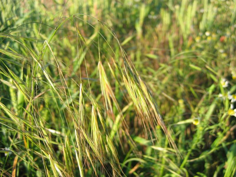 Taube Trespe Bromus sterilis